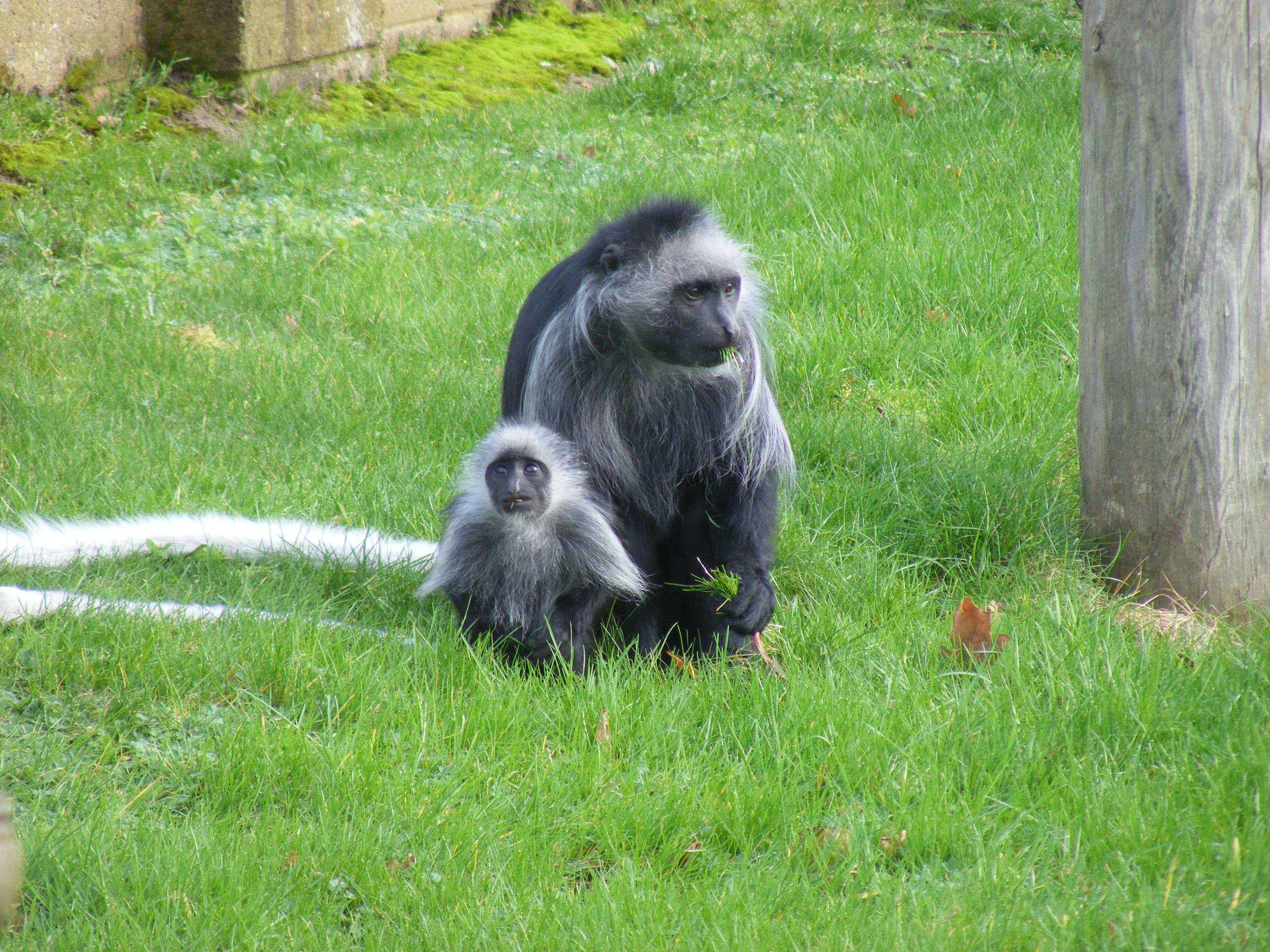 King colobus monkeys - taken at Marwell Wildlife on 27th February 2011